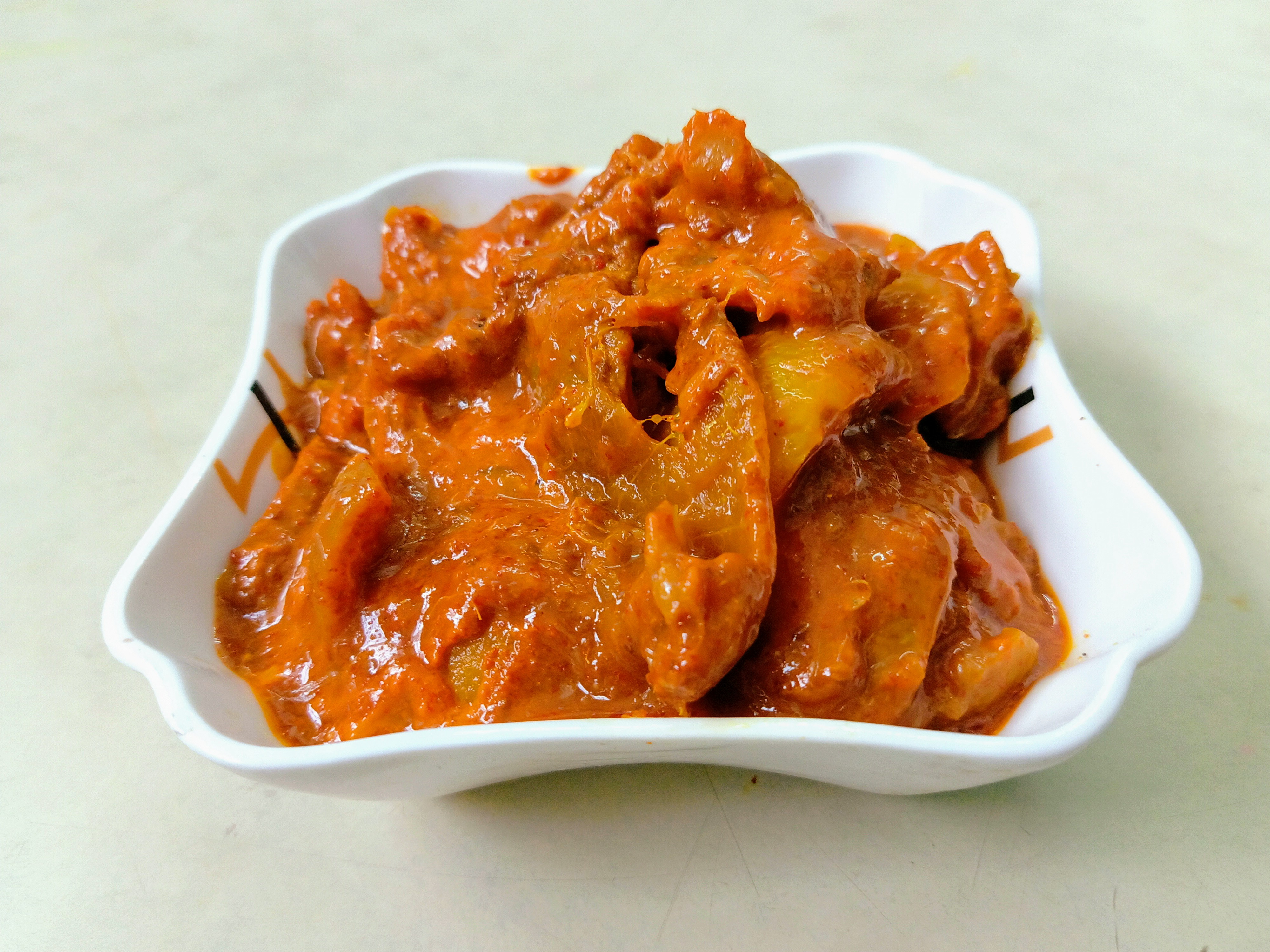 lemon pickle in a plate